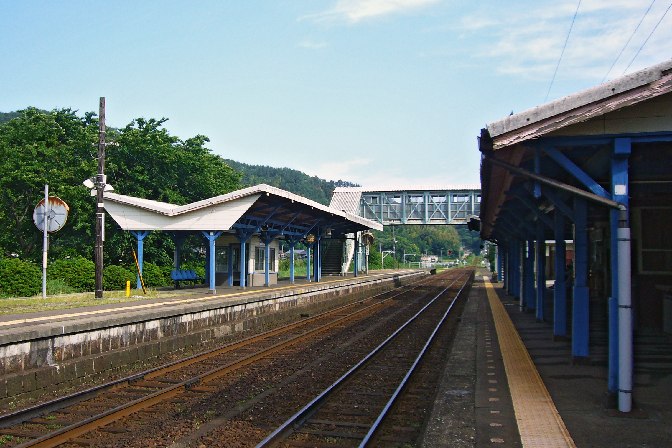 Takeno Station in Toyooka, Hyogo prefecture, Japan